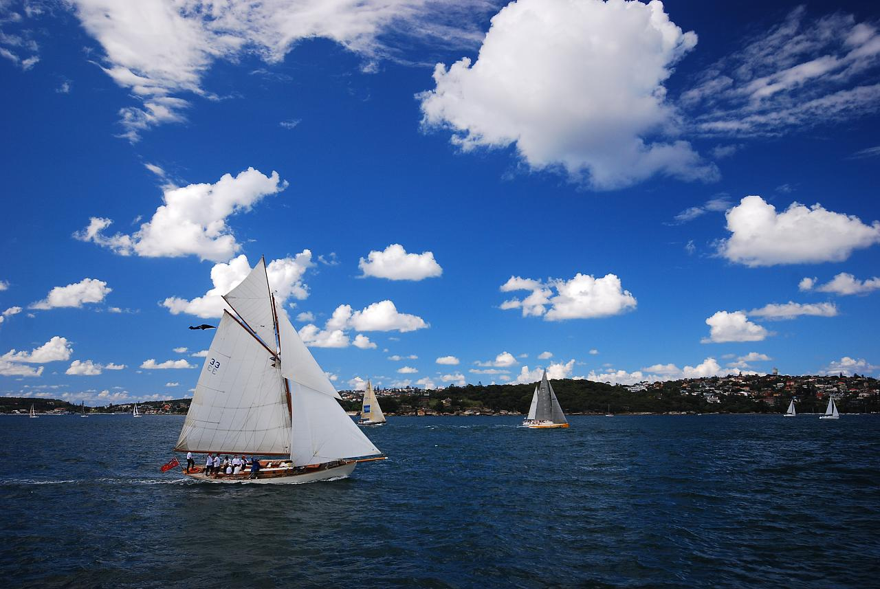 Sydneysiders skiping in the same waters but 100 years ago: Centennial Regatta, Sydney.